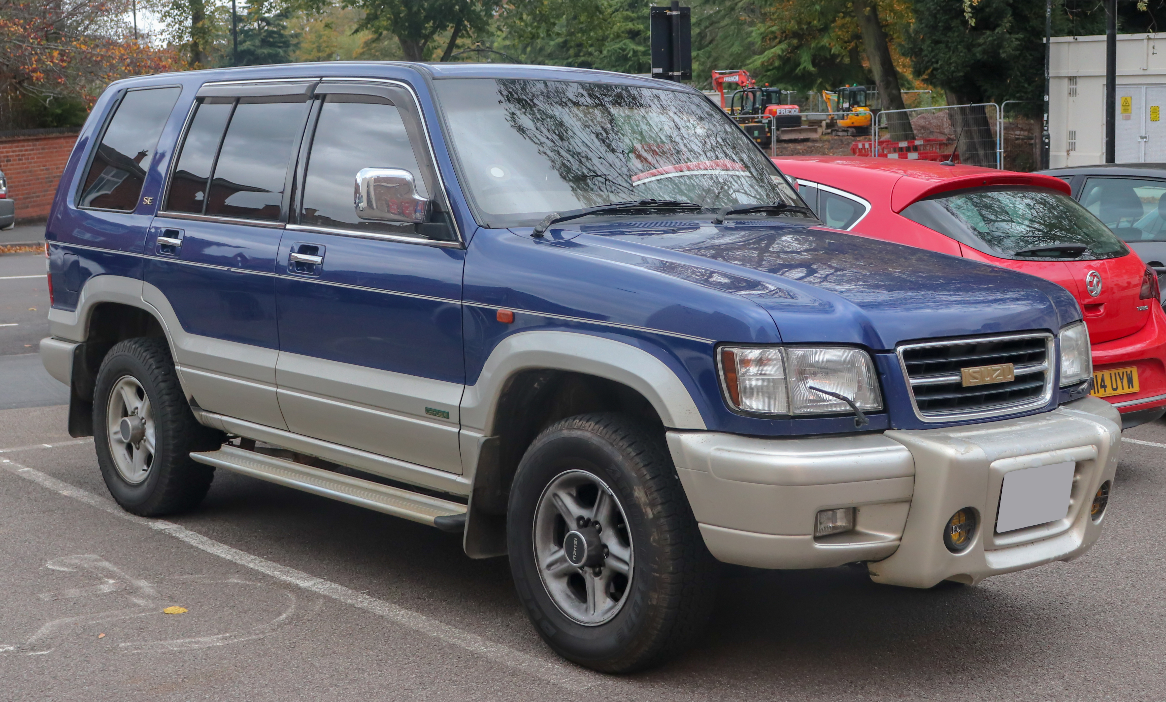 1999 Isuzu Bighorn 3.5 Front Taken in Leamington Spa